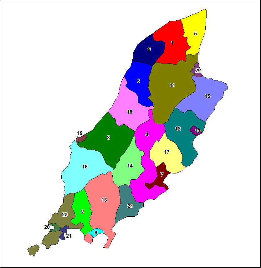 Map of the parishes of the Isle of Man. Created by Rarelibra for public domain use. Created using MapInfo Professional v7.5 using various mapping resources.